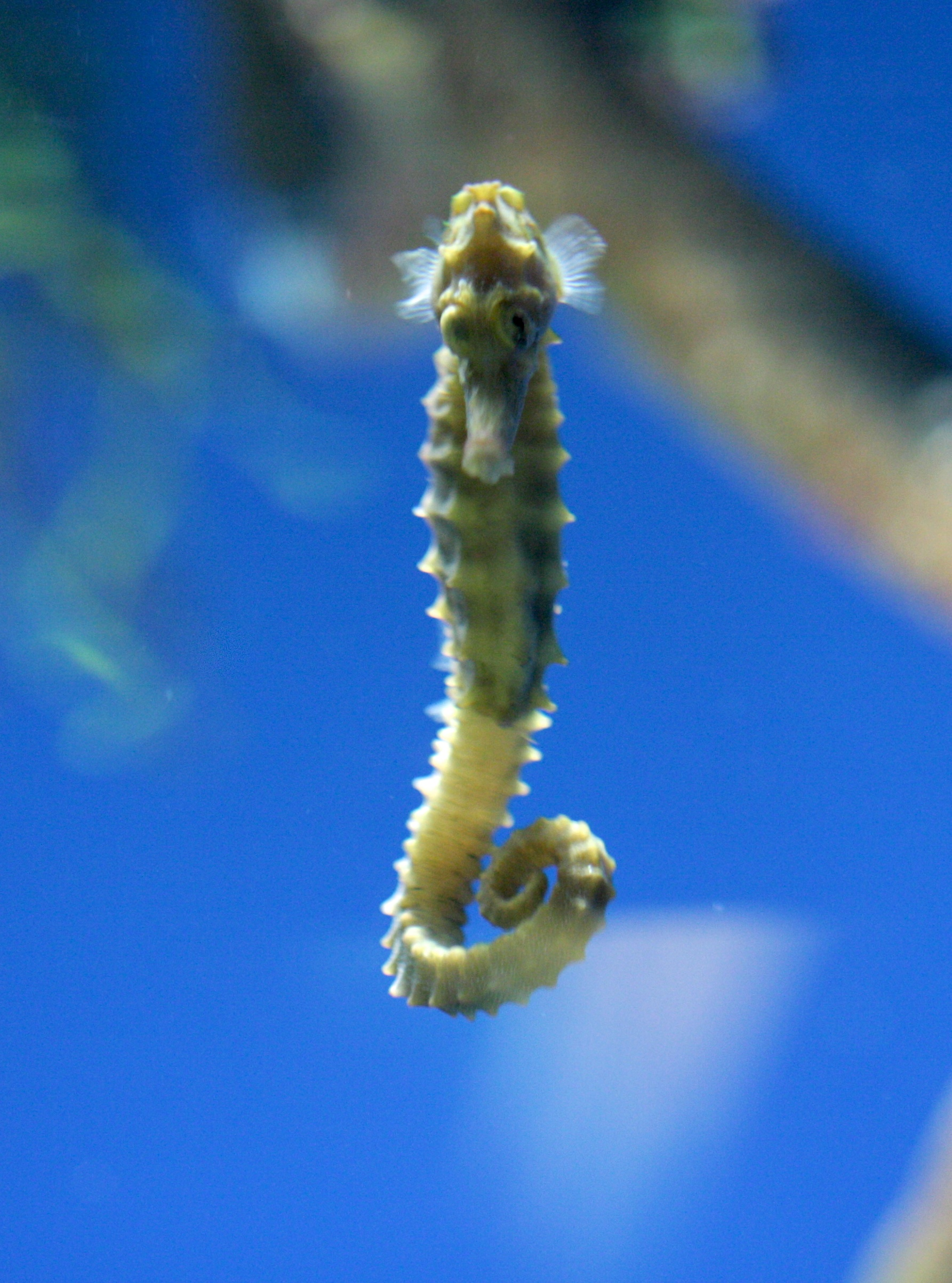 Lined Seahorse (Hippocampus erectus) at the Florida Aquarium.